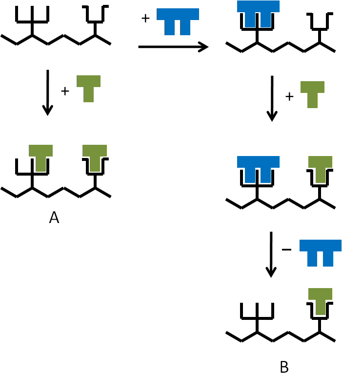 Organic Synthesis without or with protecting group (A: undesired Product, B: desired Product)